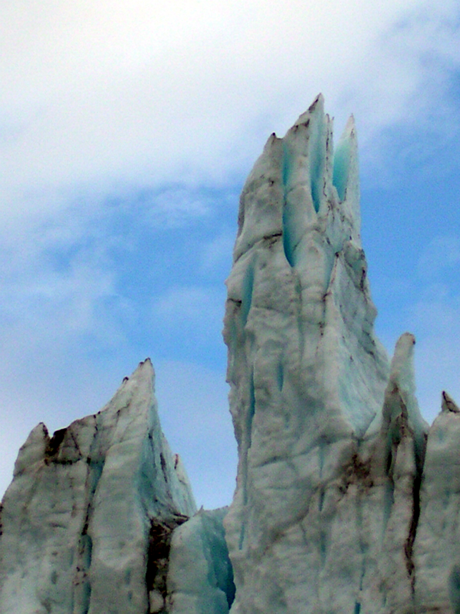 Serac at Russells Glacier in Greenland